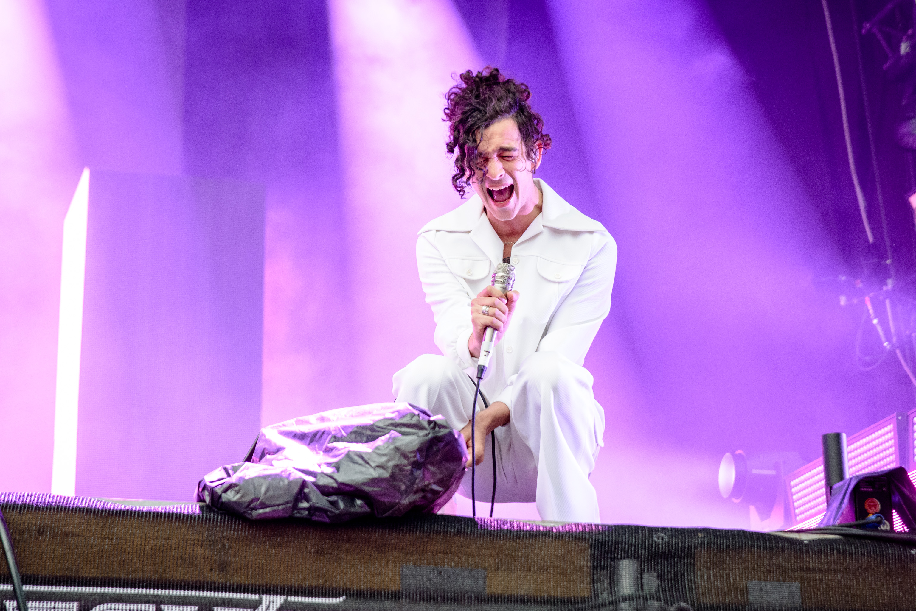 The 1975 @ Rock im Park 2016